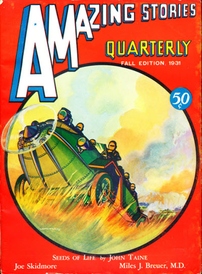 Cover, Amazing Stories Quarterly, fall 1931